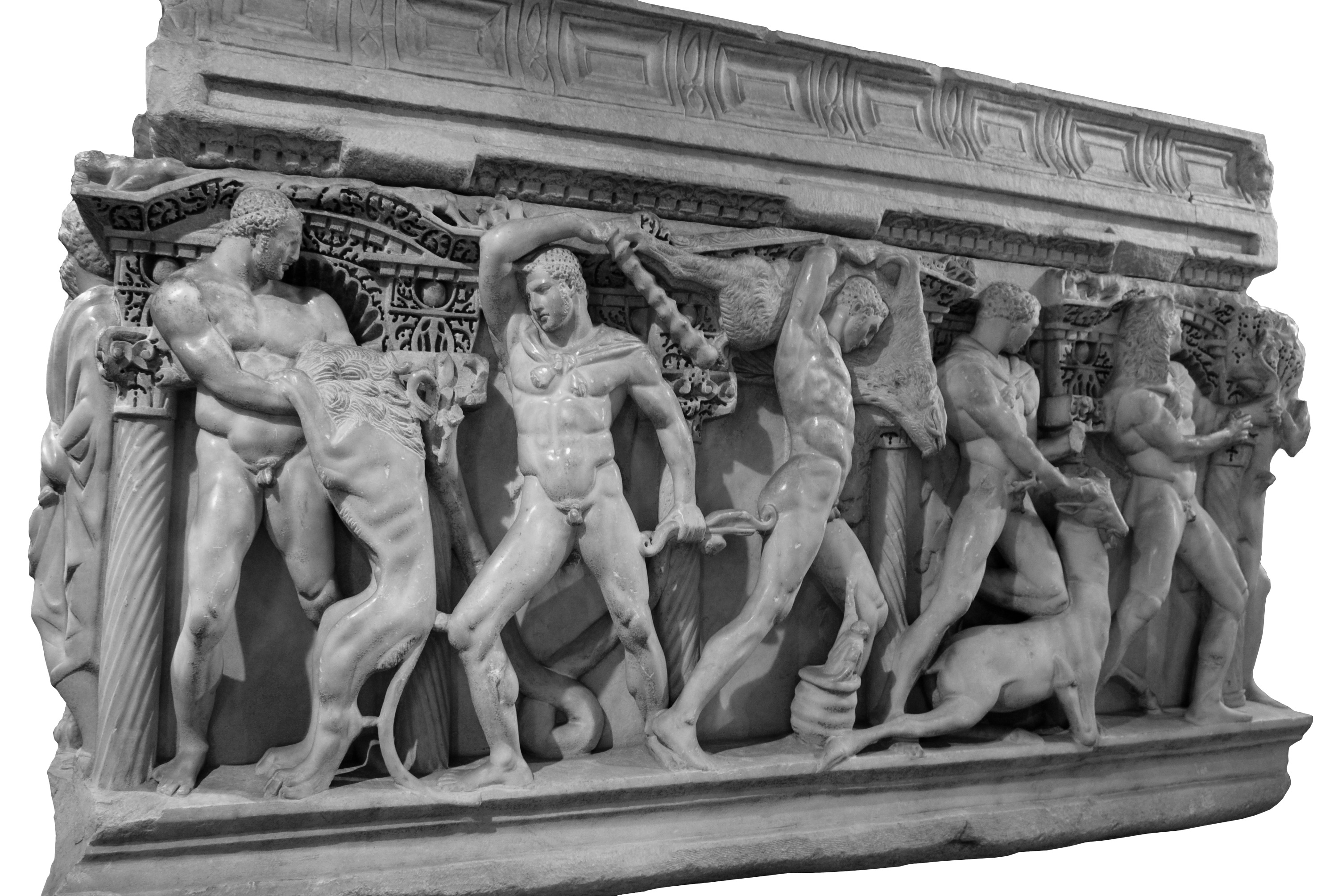 The marble sarcophagus of Hercules, typical of Sidamara. Roman period 250-260 AD. Found in Yunusular village (Pappa Tiberiopolis), near Beysehir.